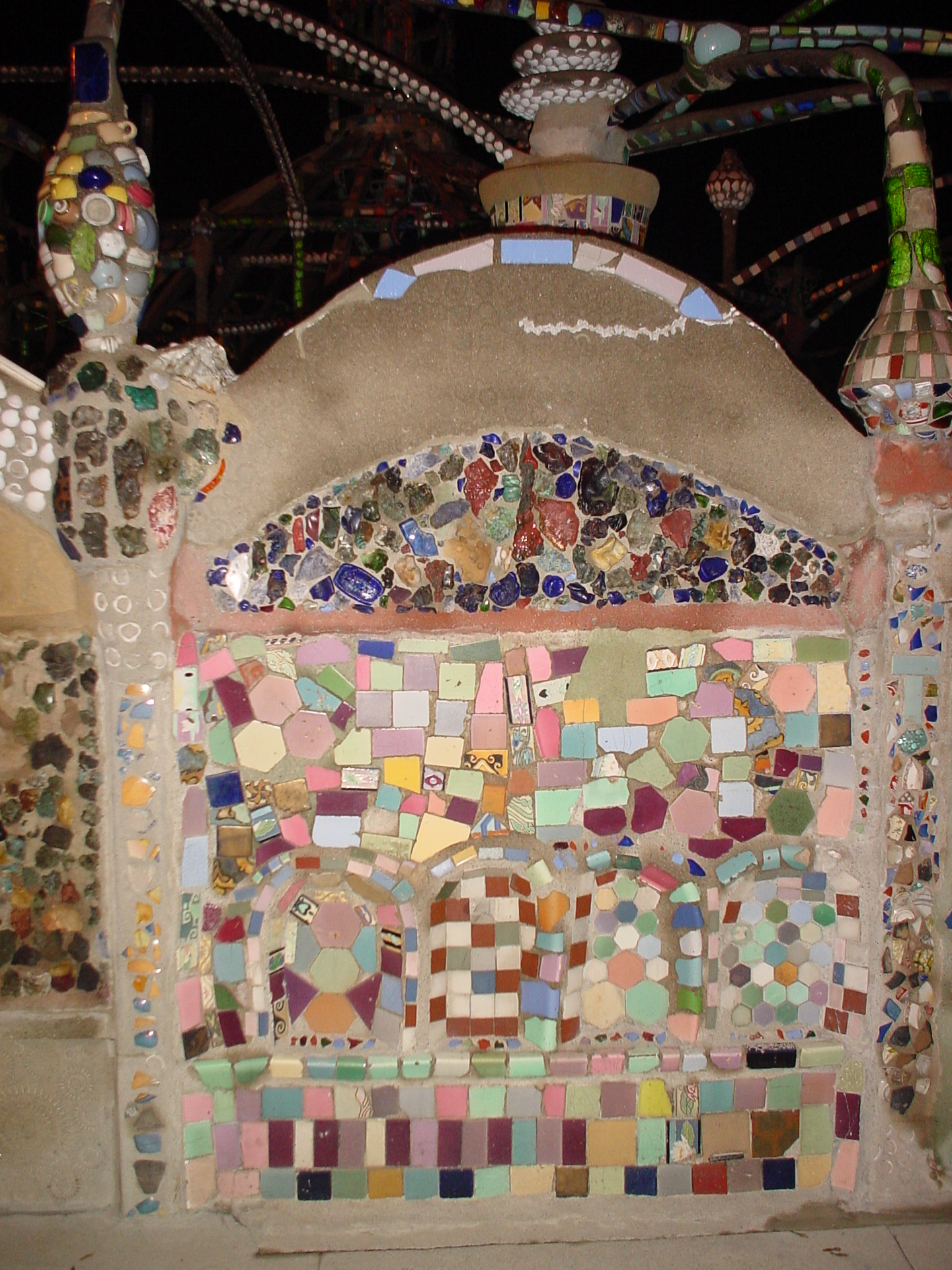 Photographed and uploaded by user:Geographer. Close-up of the mosaic decoration, circa 2002 winter.